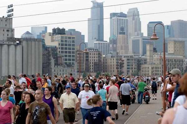 I-35W Mississippi River bridge collapse, Minneapolis, Minnesota. Crowd gathered on the Stone Arch Bridge (Minneapolis), upriver from the I-35W bridge.